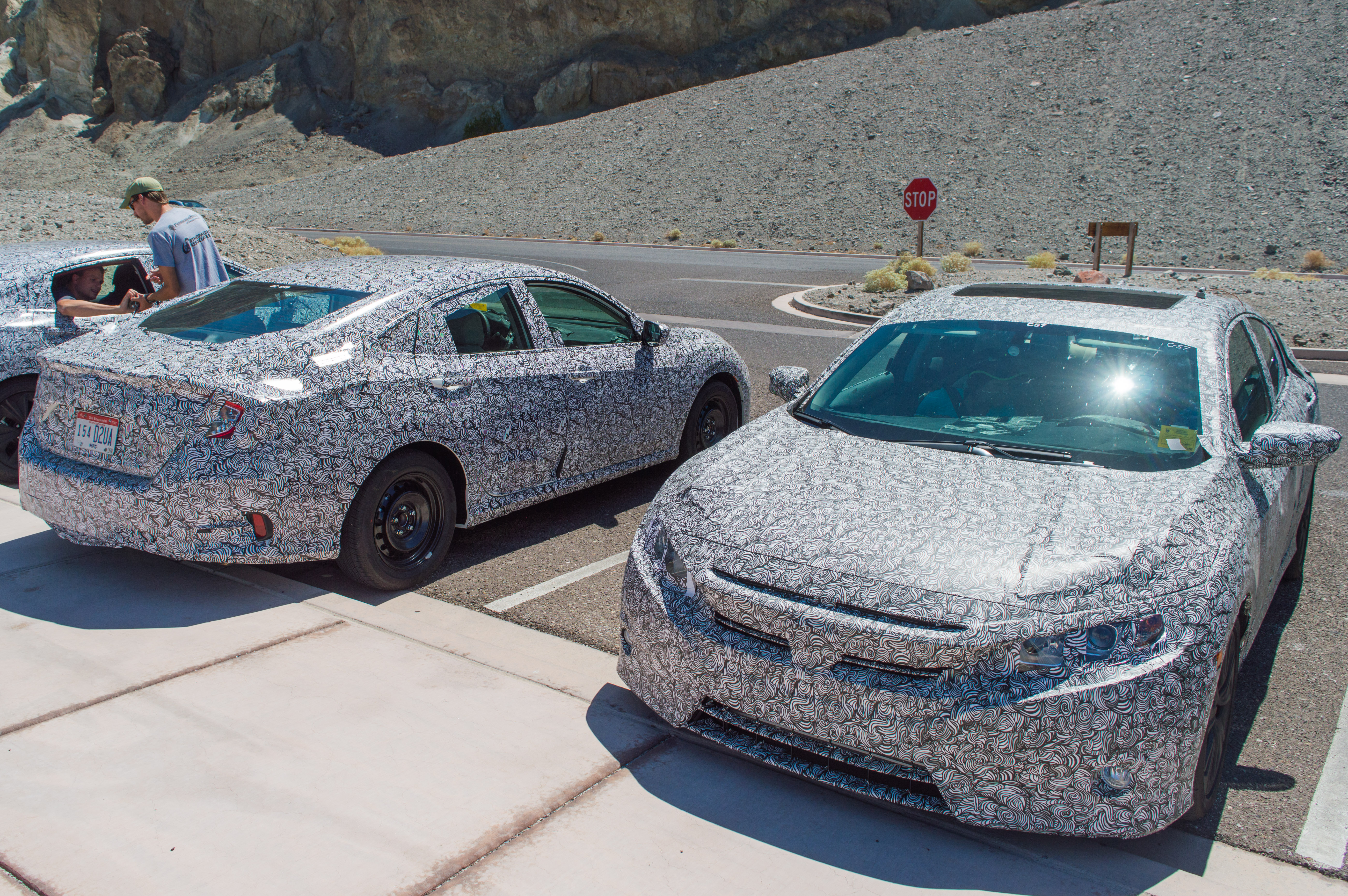 Development mules at the car park of Badwater Basin, where they performed some tests. Does anybody now the brand/model of the cars? Honda Civic?